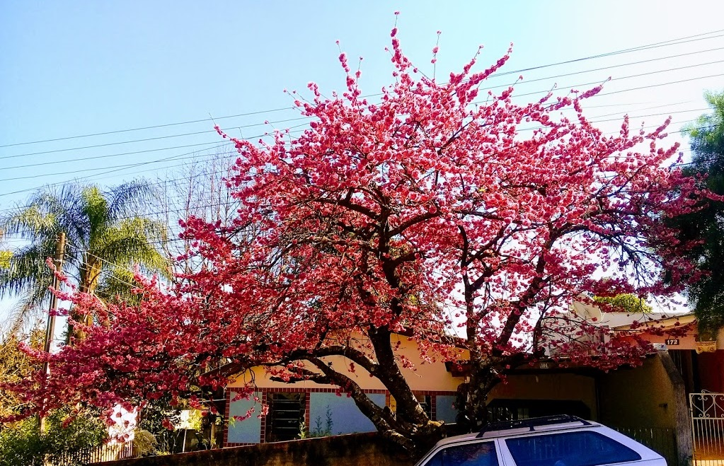 Cherry tree (Prunus Serrulata) in Ponta Grossa, southern Brazil